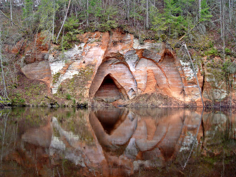 Engeli Grotto at River Salaca